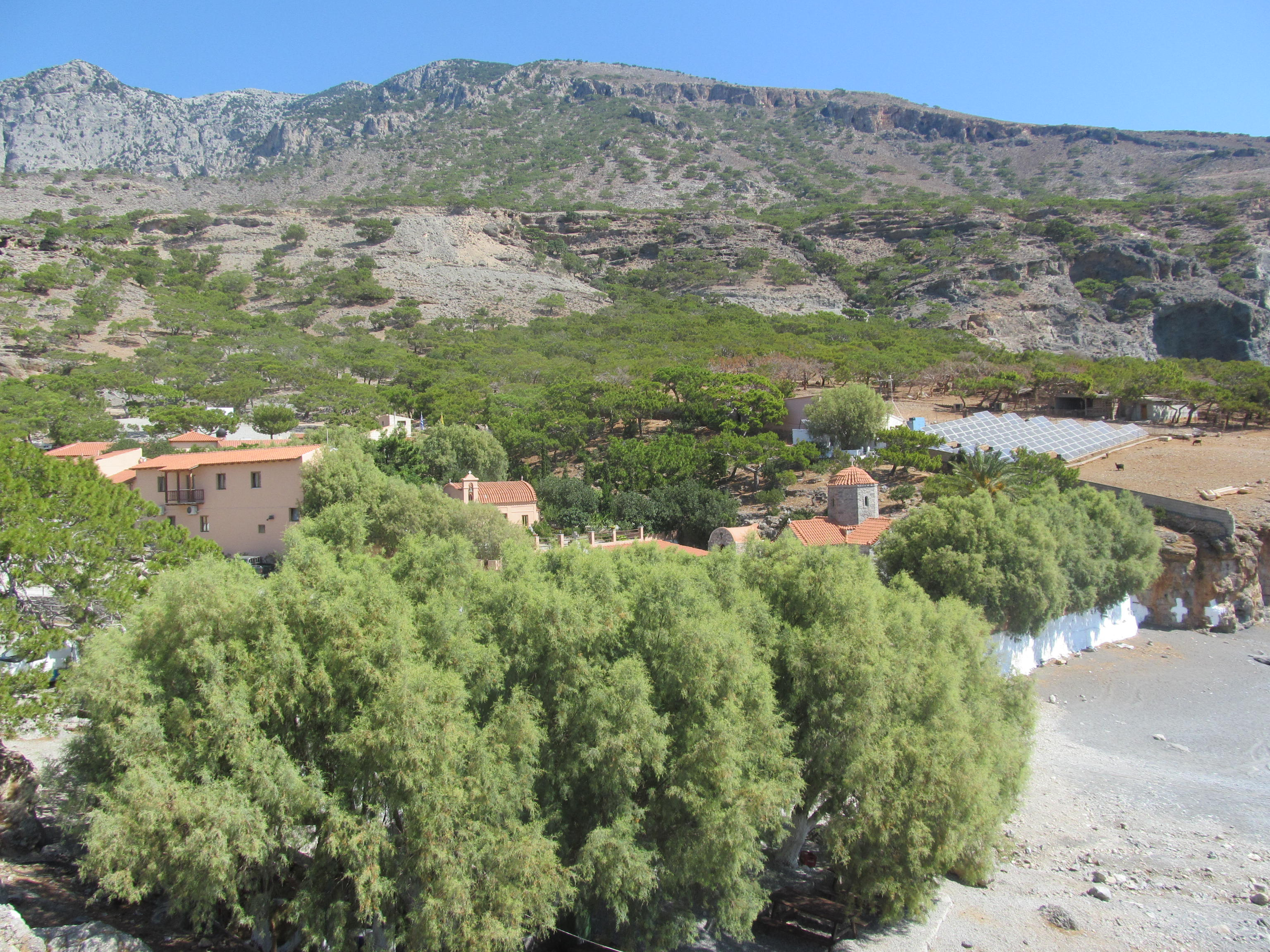 Total view of Koudoumas monastery